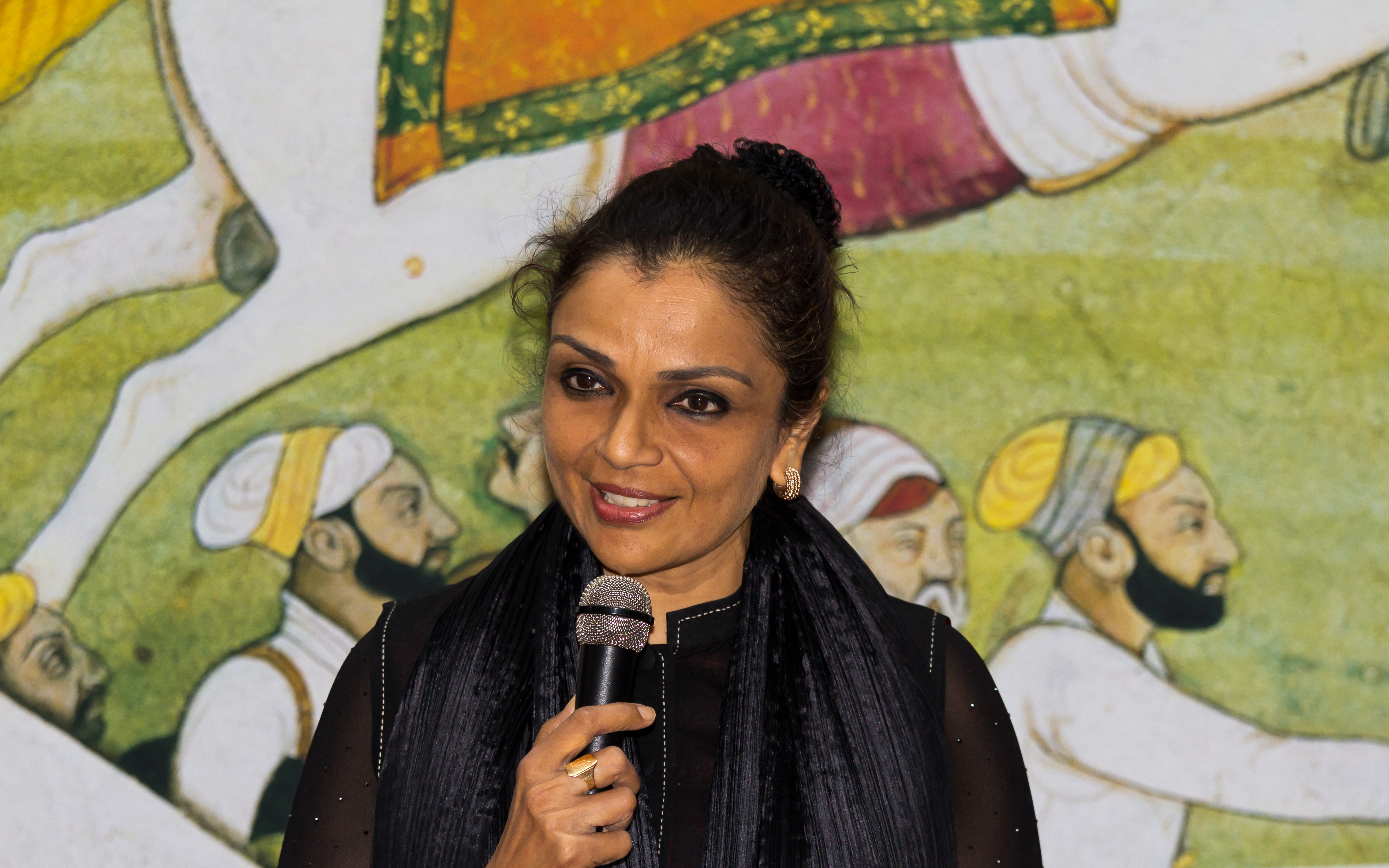 Press conference in the "Rautenstrauch-Joest-Museum" Cologne with die Indian artists Anita Ratnam and Maya Krishna Rao.